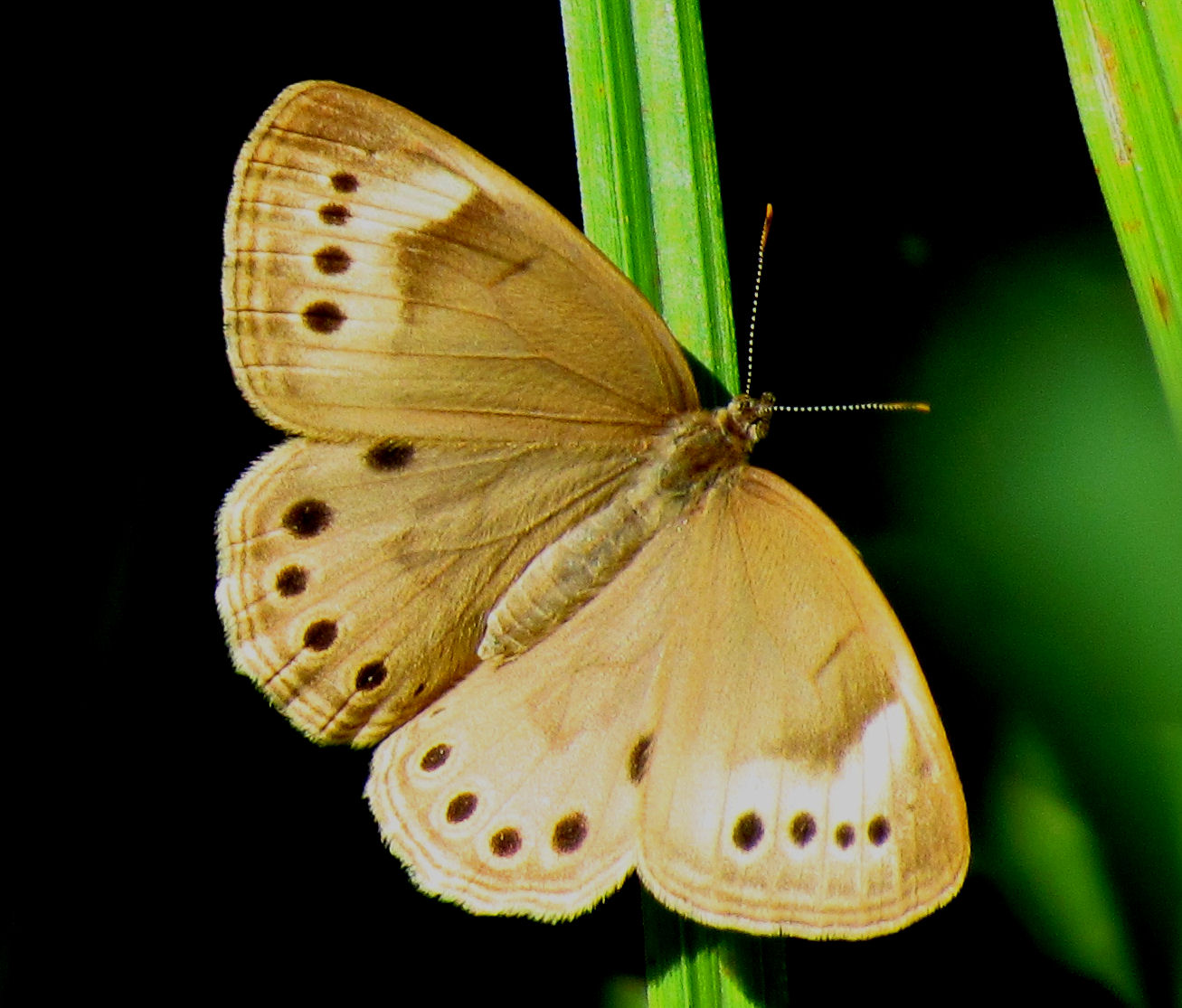 Eyed Brown (Satyrodes eurydice), Gatineau Park, Quebec, Canada